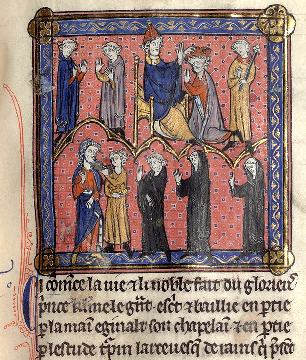 Pope Stephen II crowns Pepin; Childeric III deposed. Grandes Chroniques de France, Paris, Bibliothèque Sainte-Geneviève, Ms. 782, fol. 107..